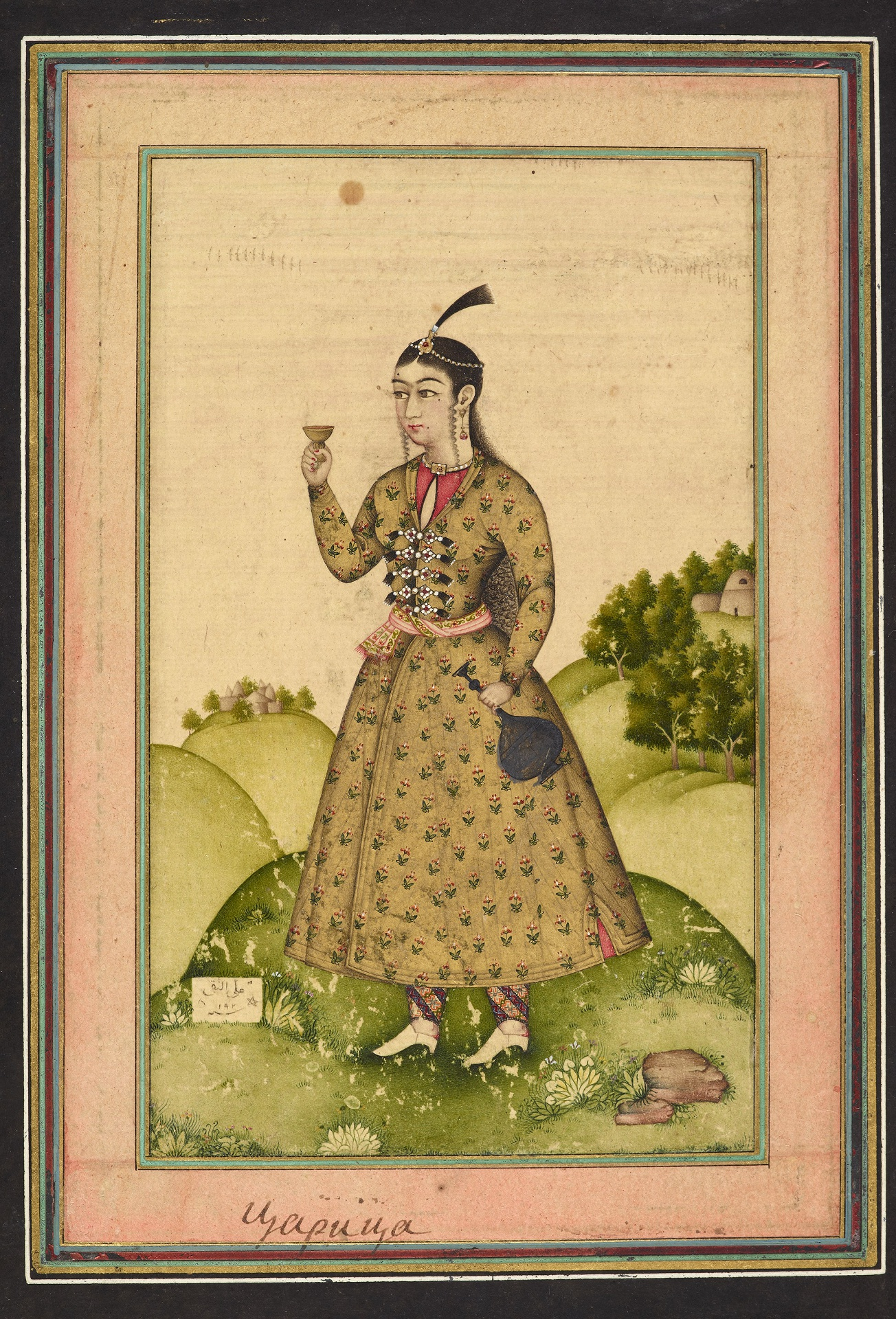 Ali_Naqi._Woman_holding_a_cup_and_a_decanter._1681._Hermitage,_Sanct_Peterburg